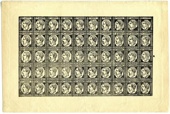 A sheet of 50 first New Caledonia stamps issued by Louis Triquéra in 1860 that depicted Napoleon III of France.